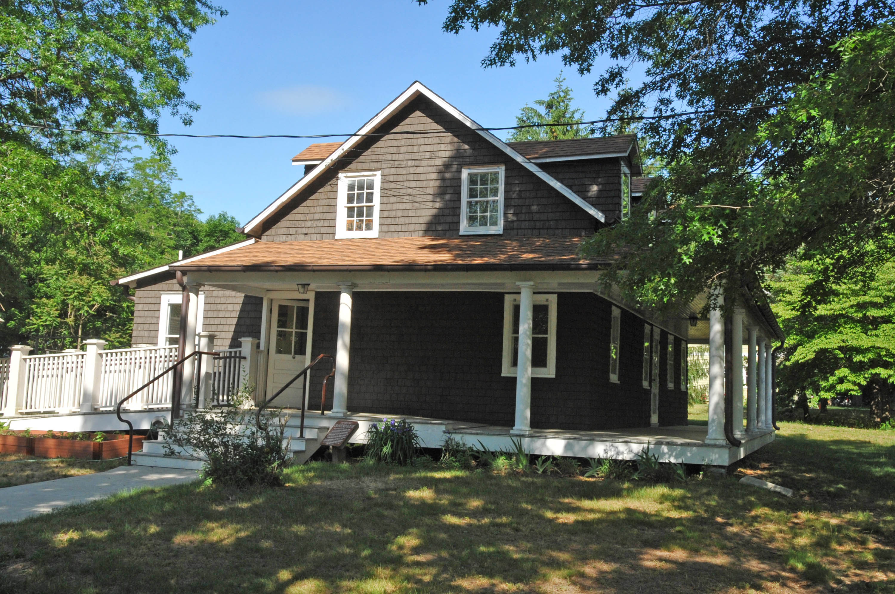 CRAWFORD HOUSE - BUILT EARLY TO MID 19TH CENTURY; THE OUTBUILDINGS WERE USED AS AN ABBATOIR AND BUTCHER SHOP BY THE CRAWFORD FAMILY UNTIL THE MID 1960’S